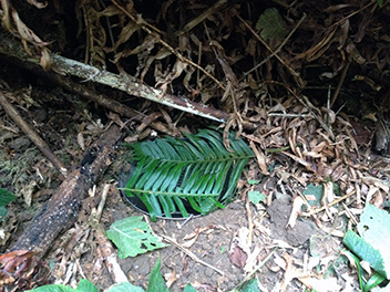 Pitfall trap used to capture white-footed vole (Arborimus albipes)